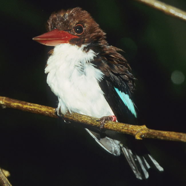 Chocolate-backed Kingfisher Halcyon badia, central Congo Basin